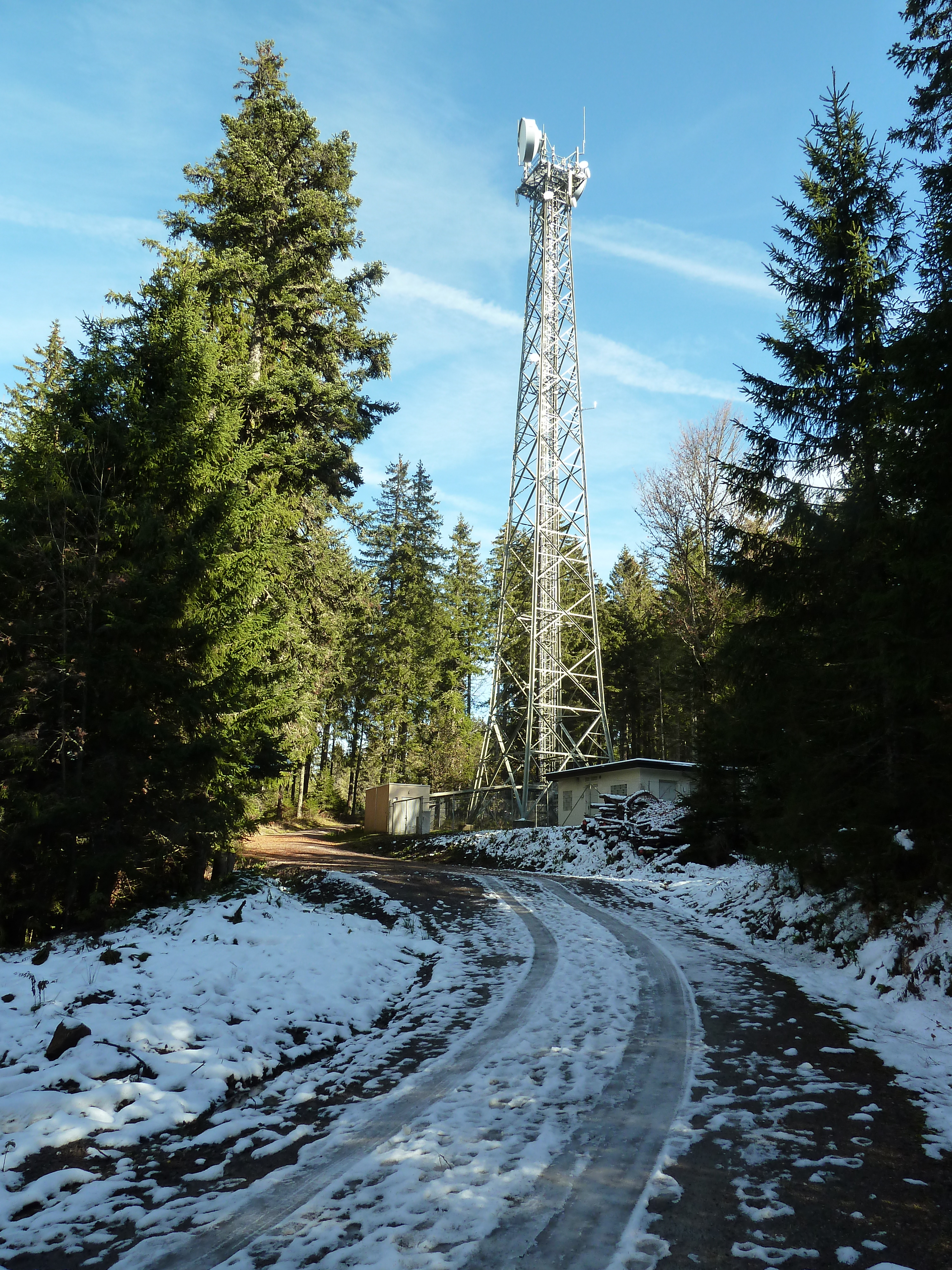 Antenna mast near Windeckkopf, Hinterzarten